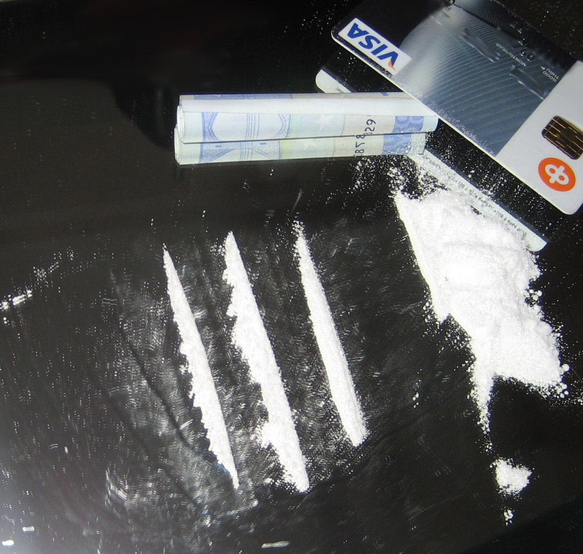 Cocaine lines on the mirror